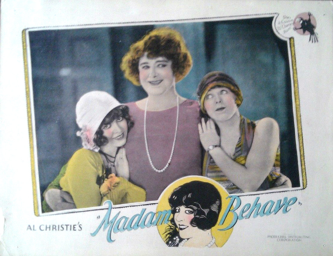 Lobby card for the American comedy film Madame Behave (1925). The item has no copyright marks as can be seen in the links.